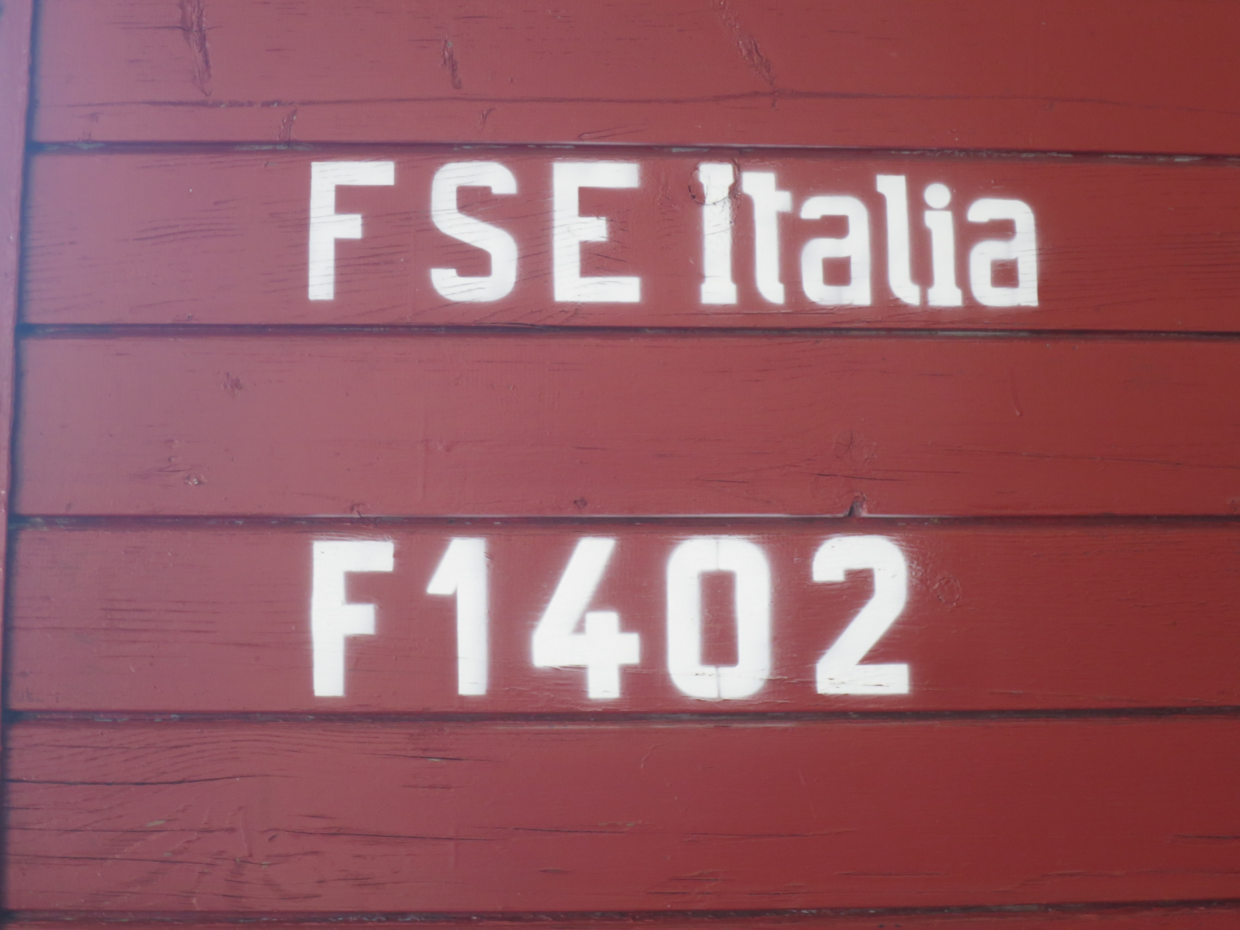 Inscription on box car of Ferroviario del Sud Est